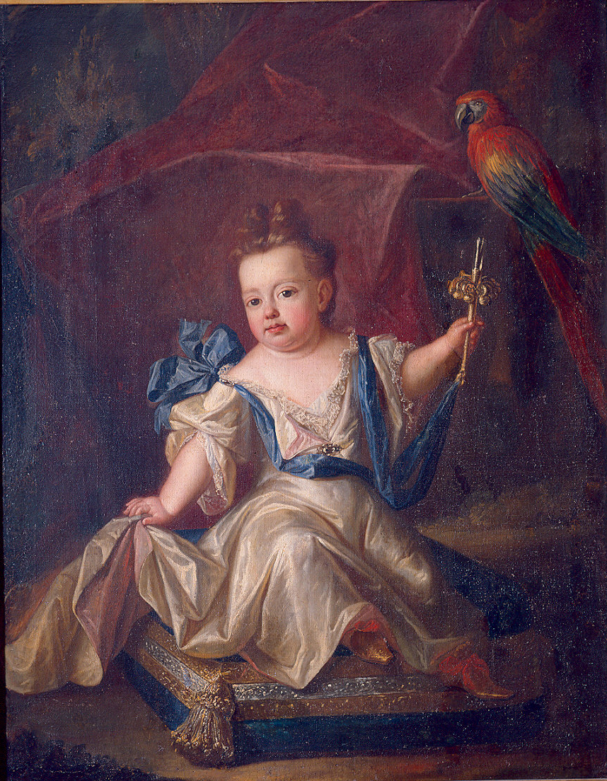 Portrait of an infant presumed to be Elisabeth Farnese (1692-1766)